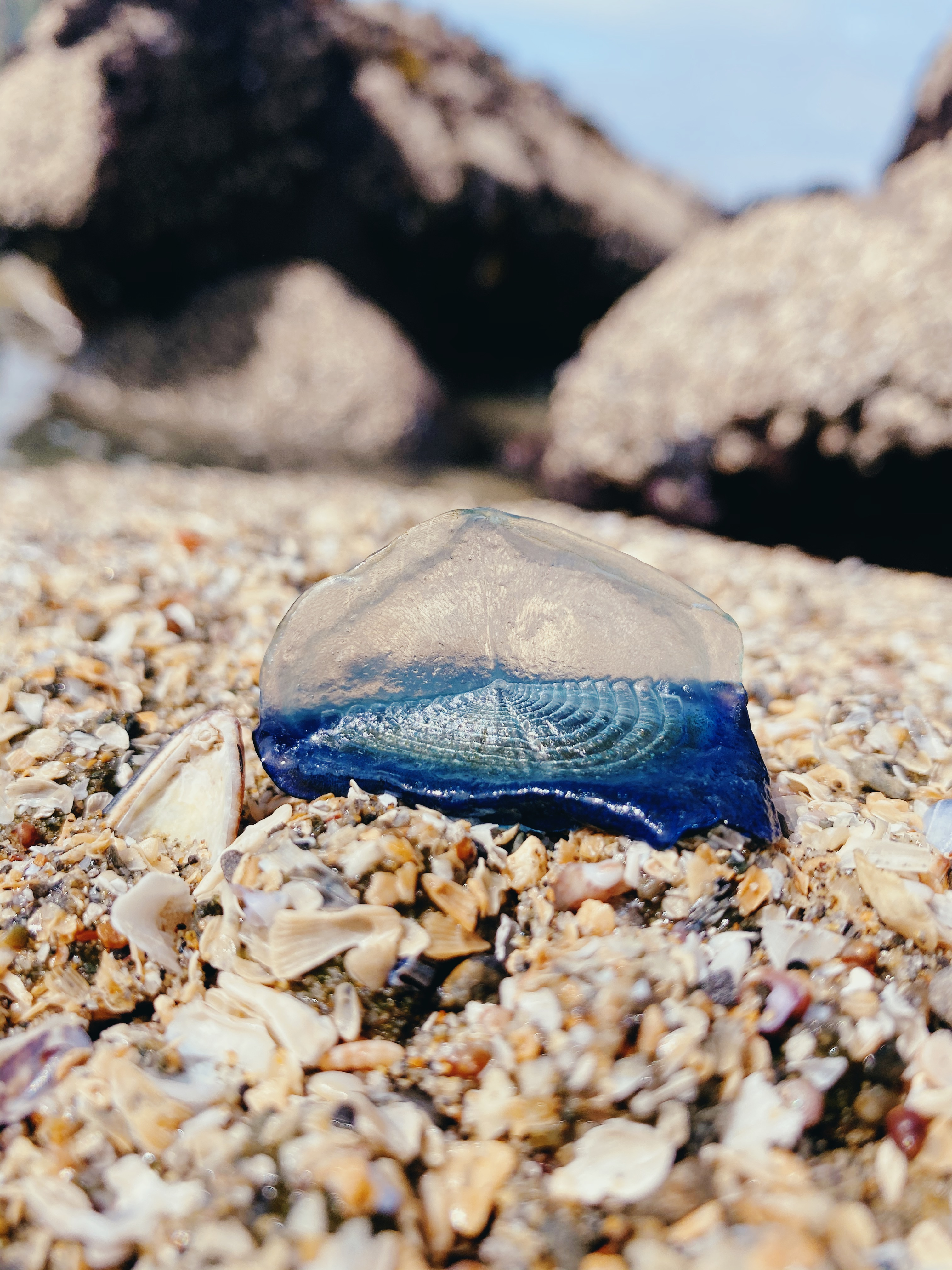 Velella on a Northern California Beach April 2020